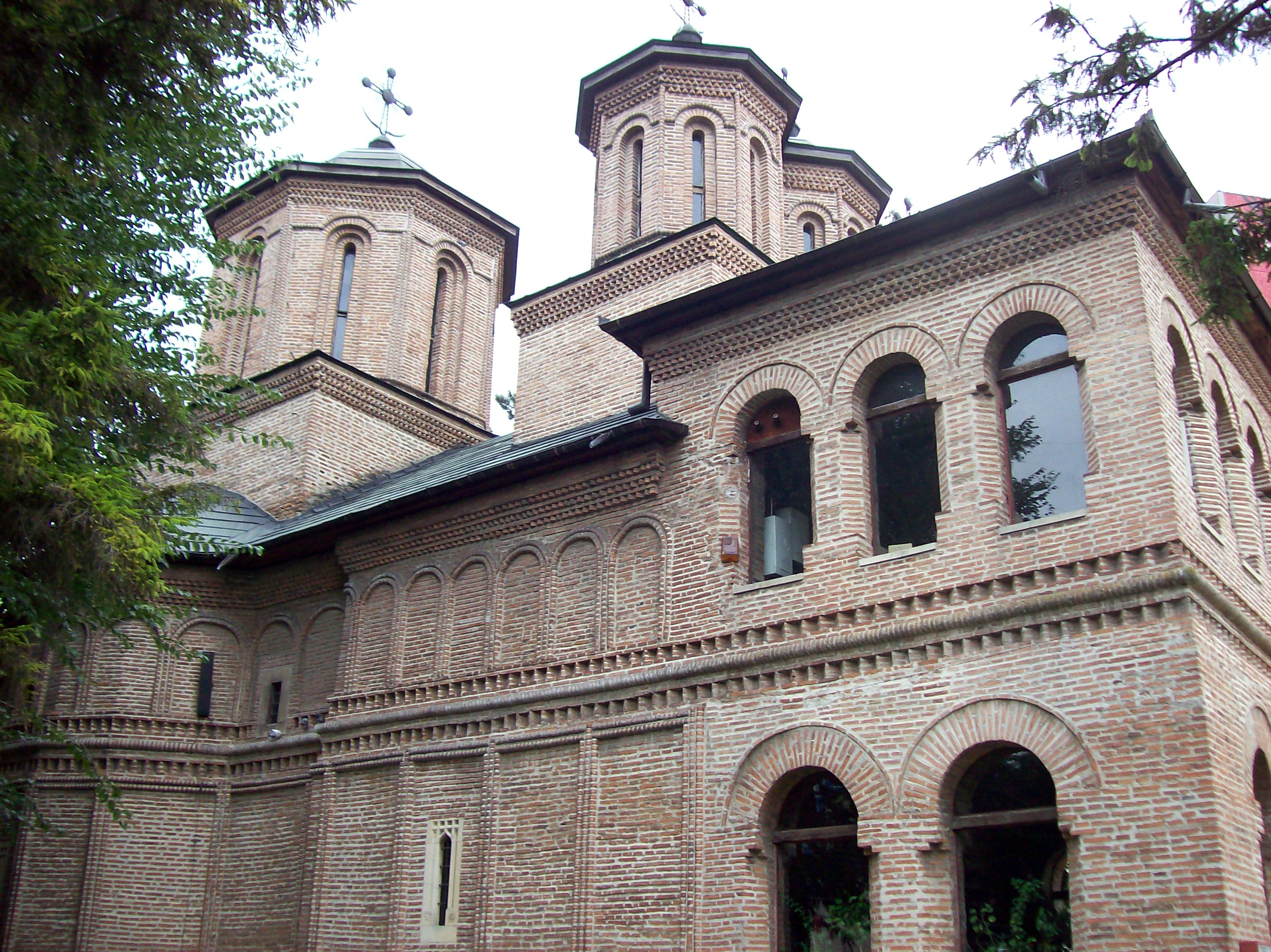 The Cathedral of Saint George in Pitești, Romania.